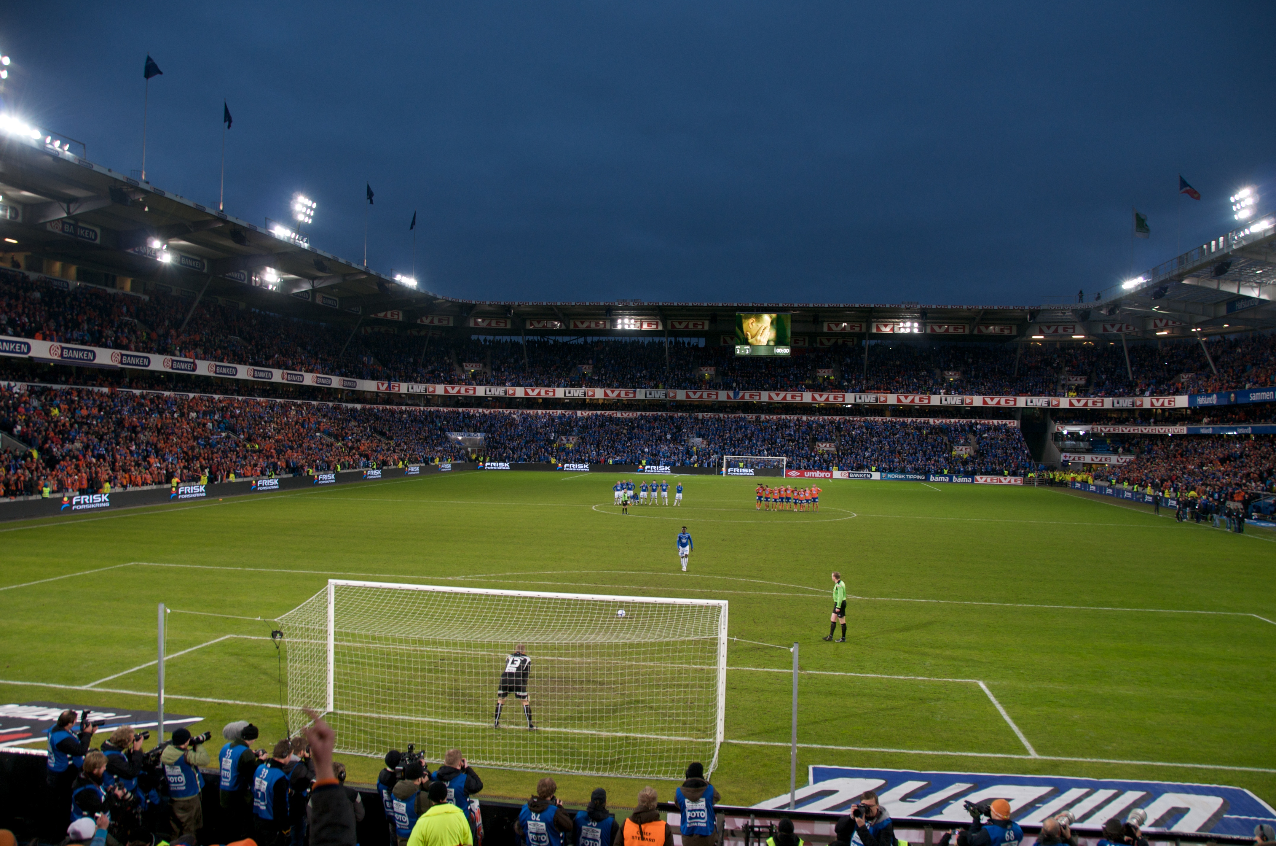 2009 - November - Cupfinalen